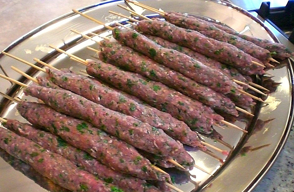 "Şiş köfte" is a kebab variant. It consists of köfte, minced lamb meatballs with herbs, often including parsley and mint, on a stick, grilled.